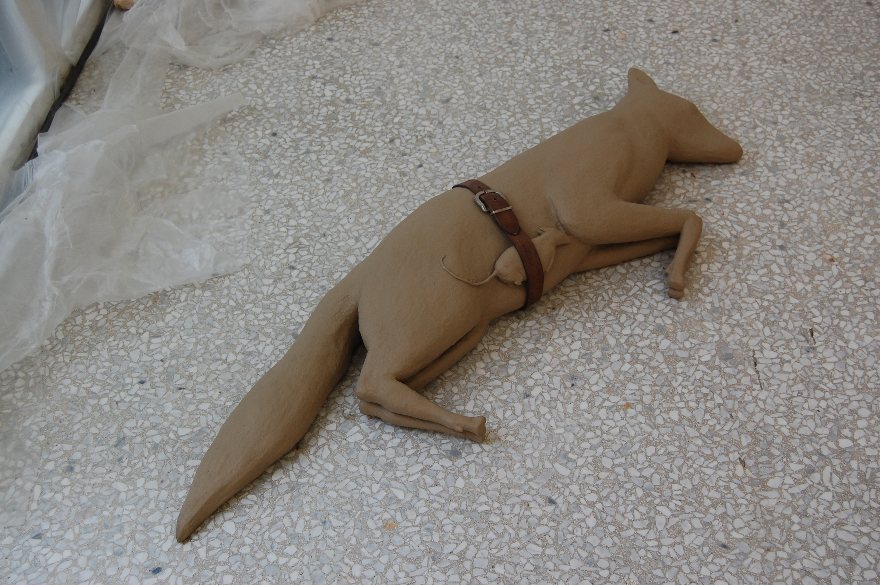 Mark Manders, 2013